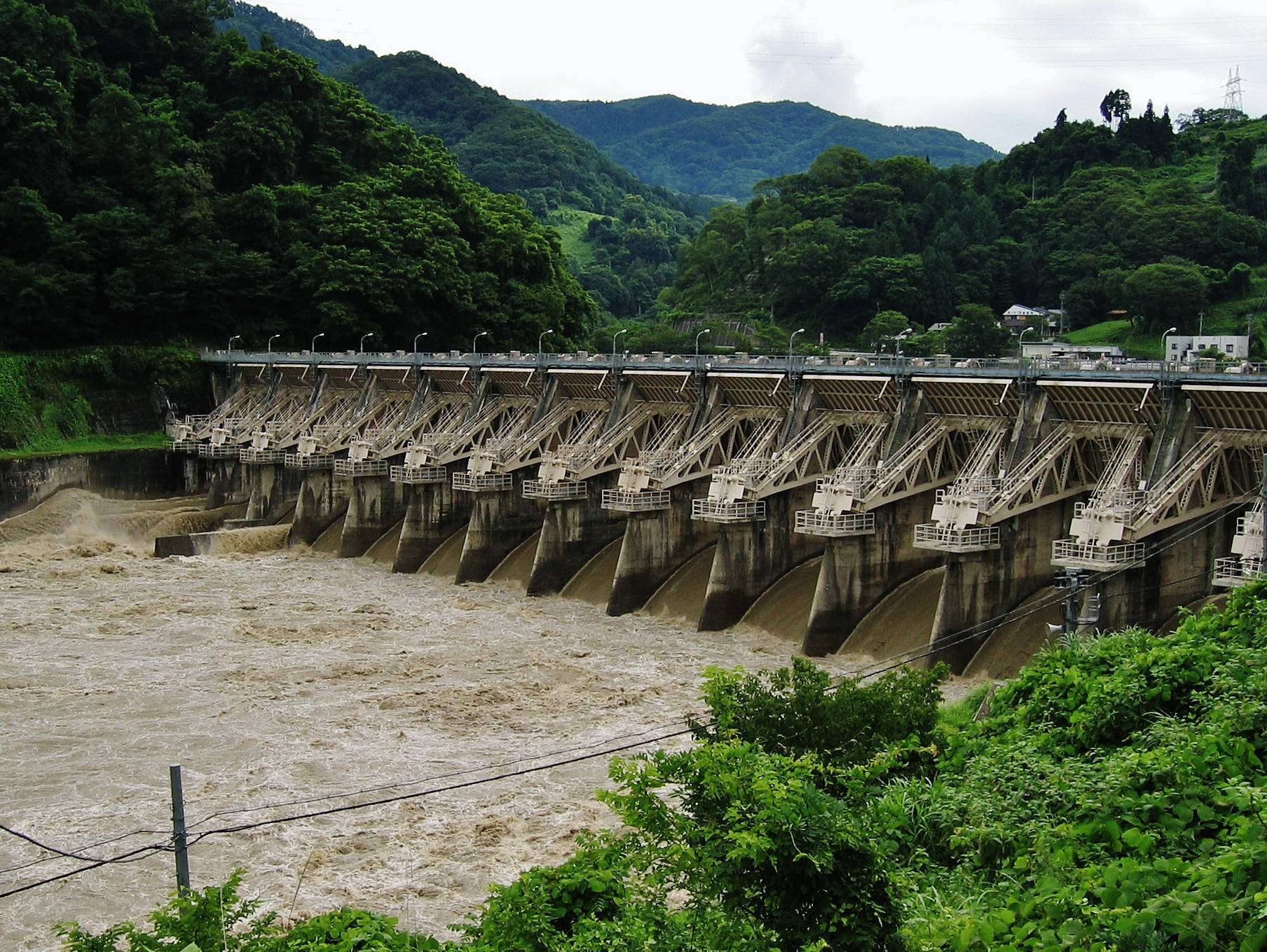 Minochi Dam.